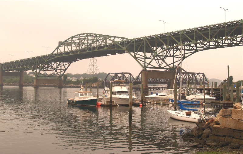 Sakonnet River Bridge, Tiverton and Portsmouth, Rhode Island